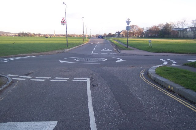 Roundabout on Wat Tyler Road, Blackheath Common Wat Tyler Road heads right to Lewisham, or left towards the A2 Shooters Hill Road. Hare and Billet Road leads straight on towards Blackheath Vale. Dartmouth Hill heads (behind the viewer) to Dartmouth Row.